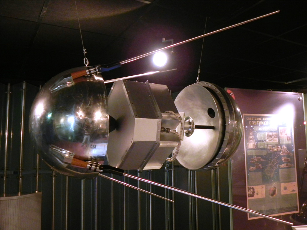 mock up of the Sputnik satellite with the case opened, scale 1:1